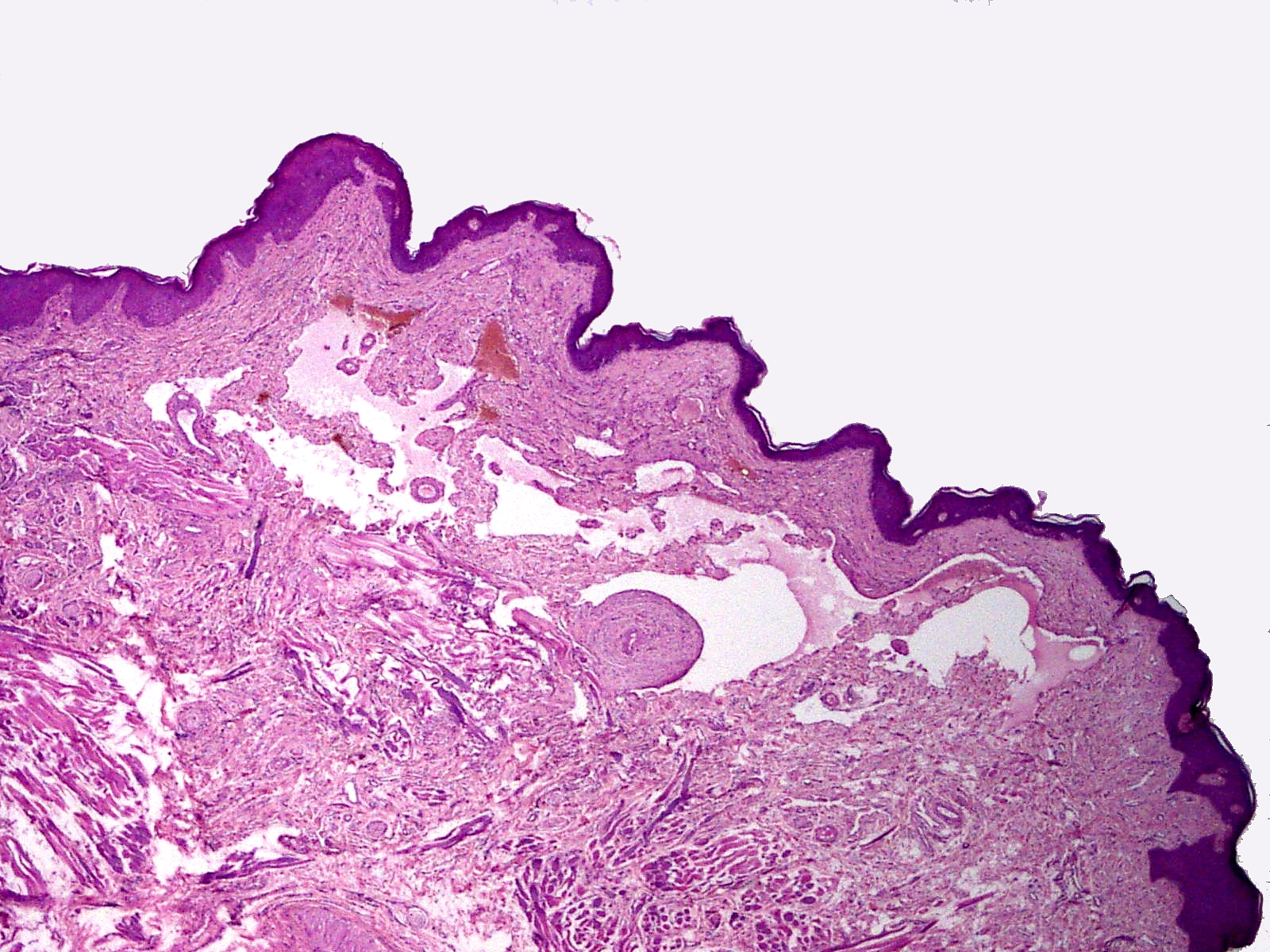 Cavernous lymphangioma